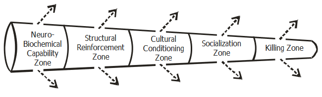 Unfolding fan of nonkilling; representation of a conceptual framework to reduce lethality in human society